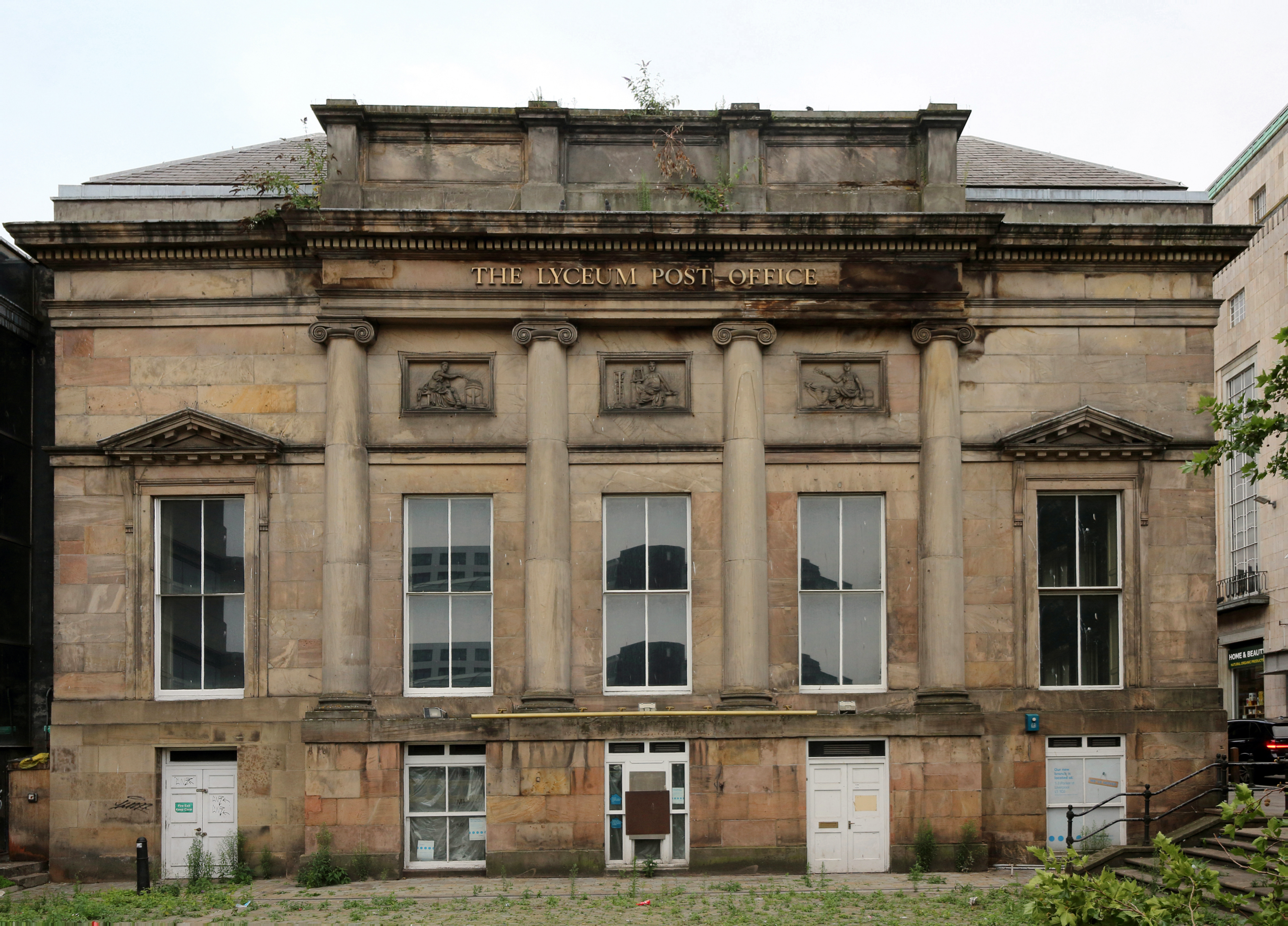 View of the facade on Ranelagh Street facing Church Street.